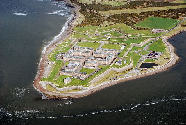 Fort George Following the defeat of Bonnie Prince Charlie at Culloden, King George II built the ultimate defence against further unrest - Fort George.